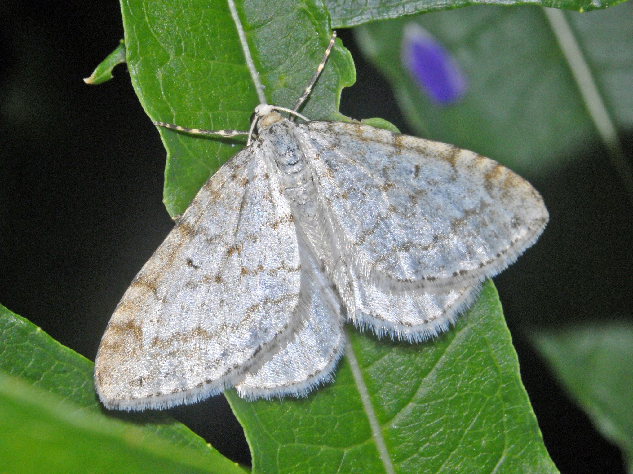 Mesotype verberata. Val Veny, Aosta, Italy